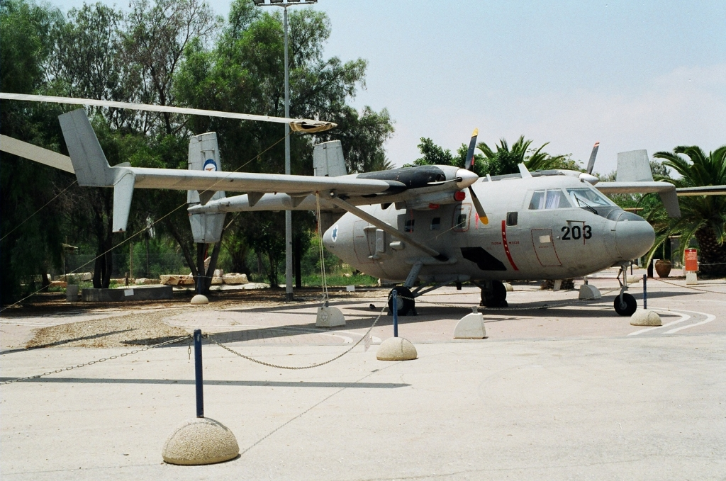 IAI Arava at the Israeli Air Force Museum in Hatzerim